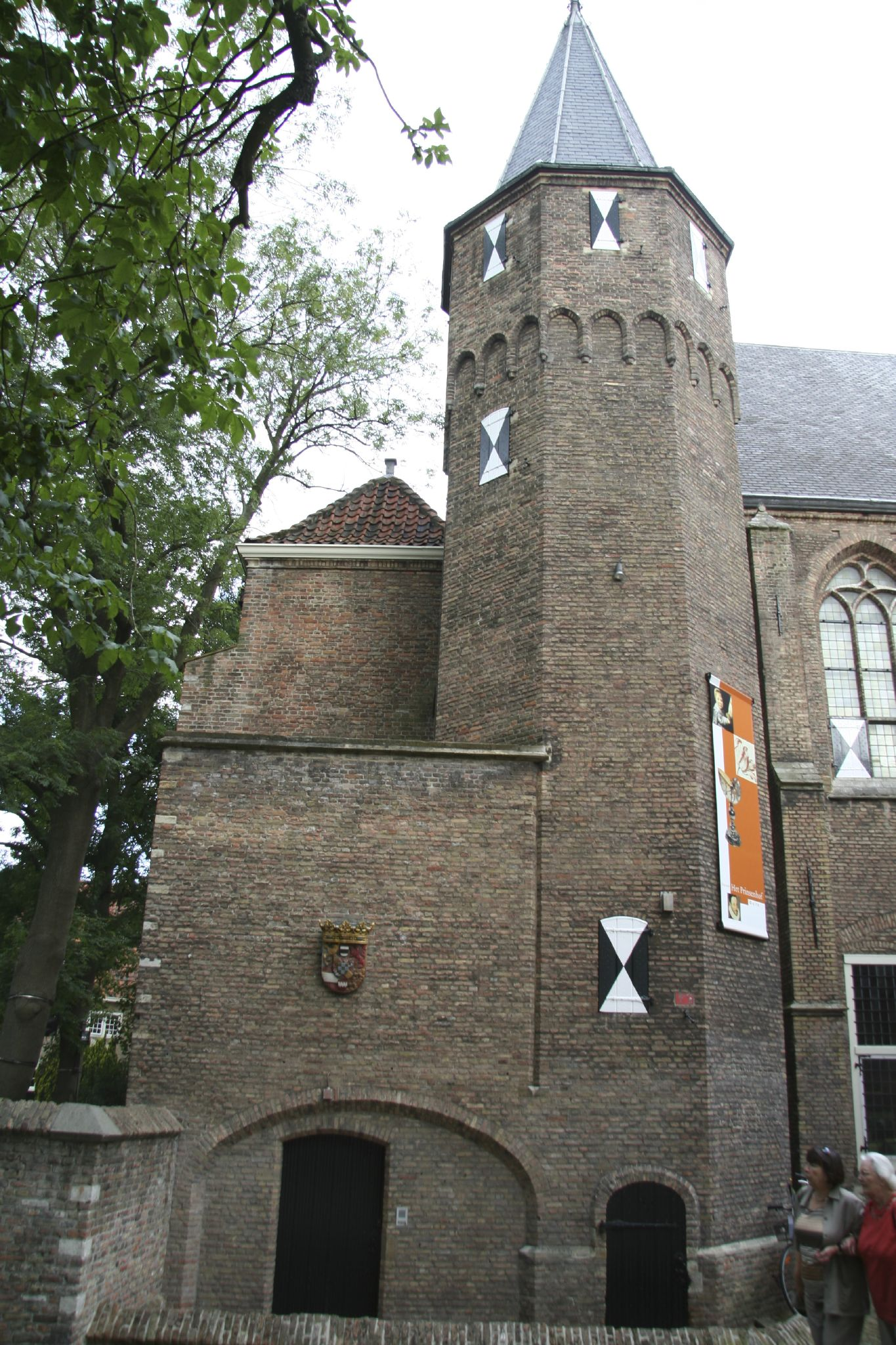 Prinsenhof Delft